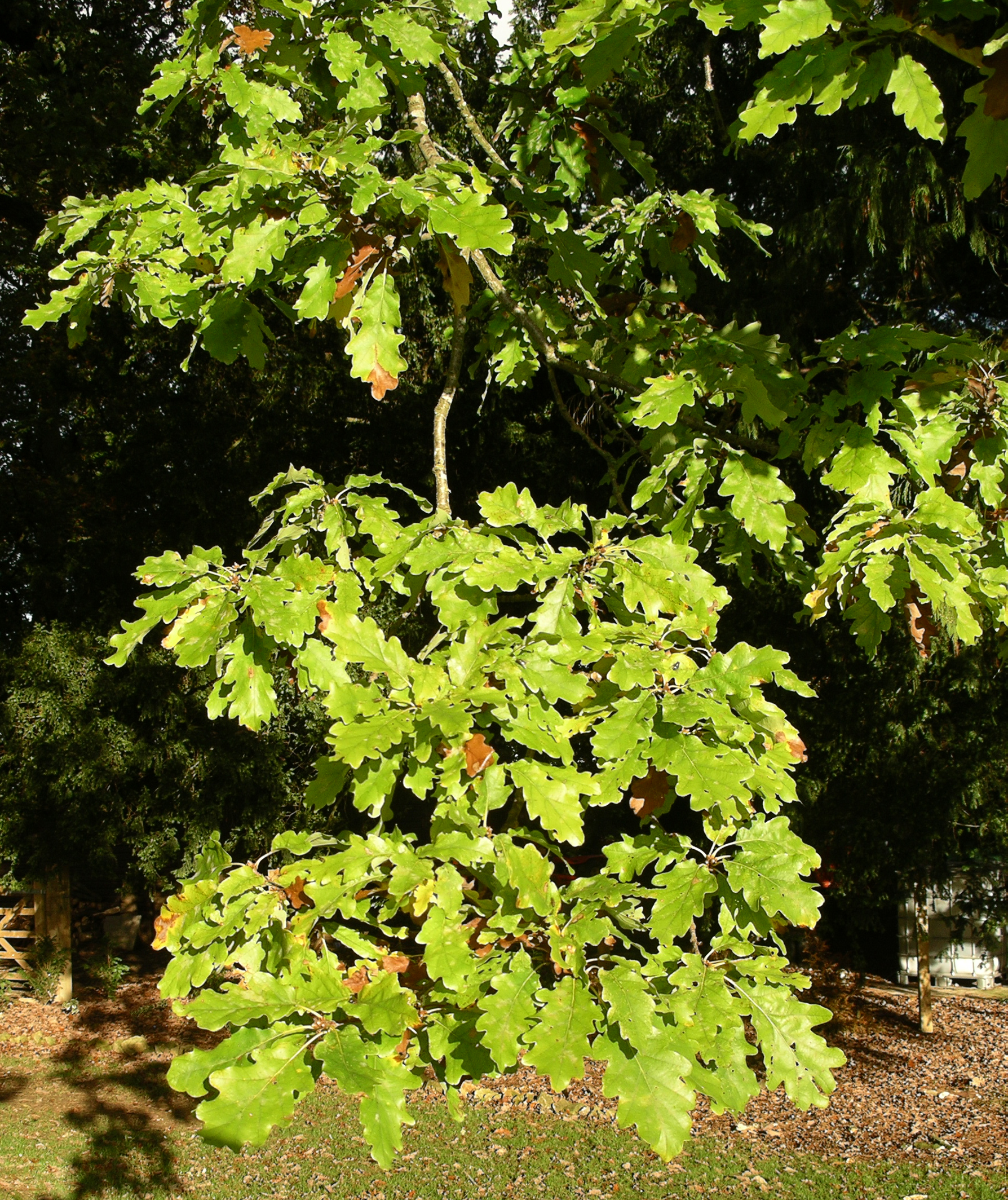 Foliage of the White oak - Quercus alba. Tortworth arboretum - 1st November 2005